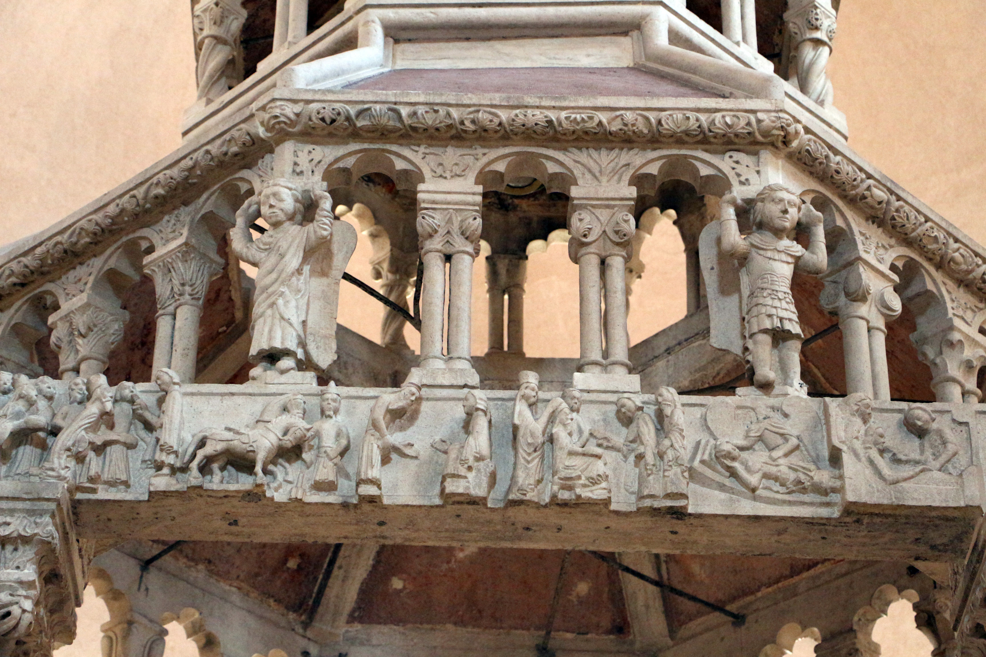 Kotor Cathedral